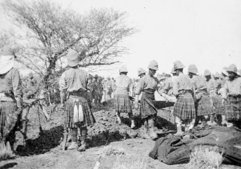 General Kitchener and the Anglo-egyptian Nile Campaign, 1898 Soldiers of the Cameron Highlanders and Seaforth Highlanders dig graves in order to bury their dead after the Battle of Atbara. The British Brigade (composed of Royal Warwicks, Lincolns, Seaforths and Camerons) lost five officers and 21 men in the action while the Egyptian Brigade lost 57. The losses of the Sudanese (Dervish) forces led by Emir Mahmoud were estimated at 3000 or more.